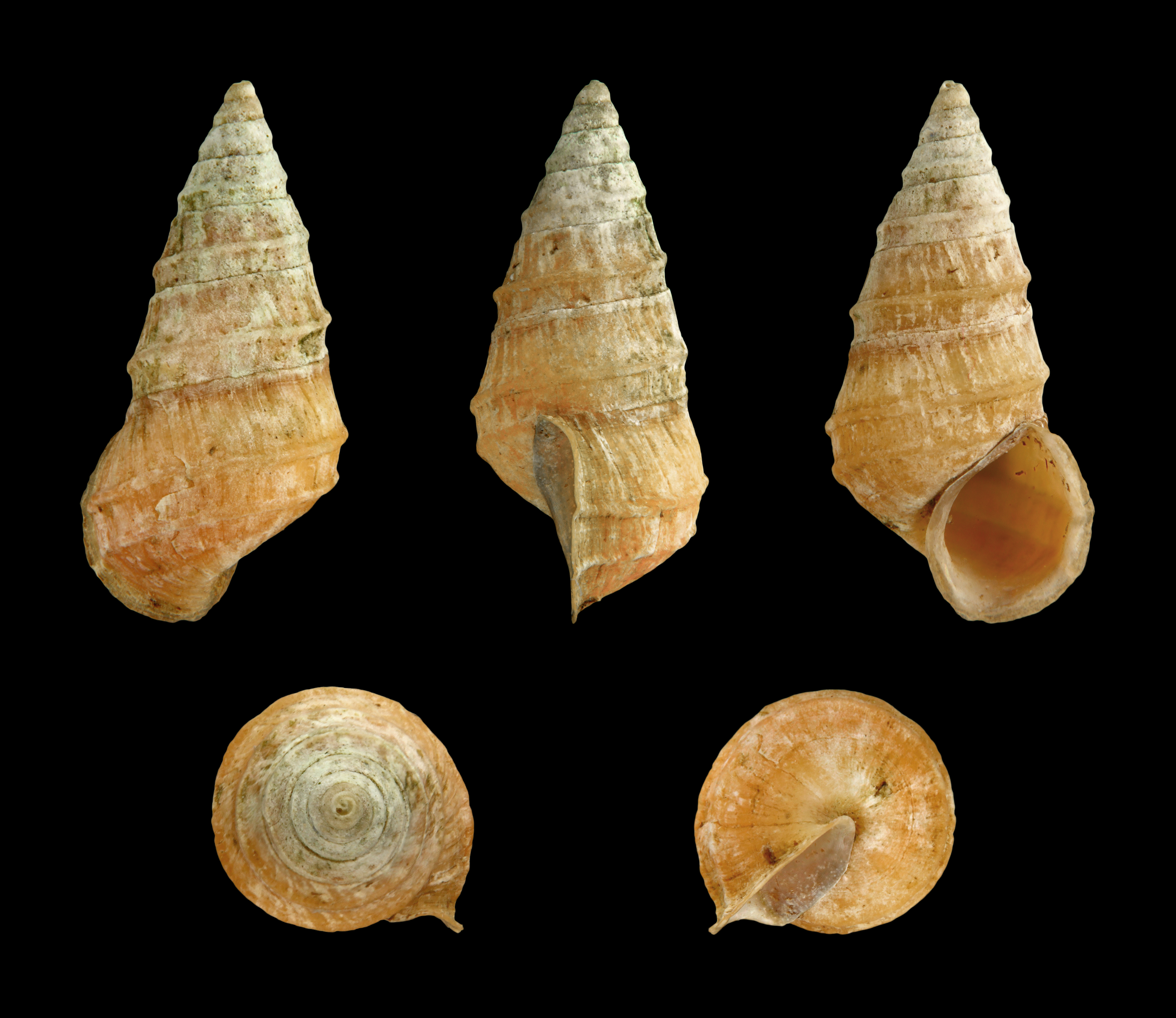 Length 1.1 cm; Originating from Hudonista Camping, Lake Ohrid, Albania; Shell of own collection, therefore not geocoded. Dorsal, lateral (right side), ventral, back, and front view.